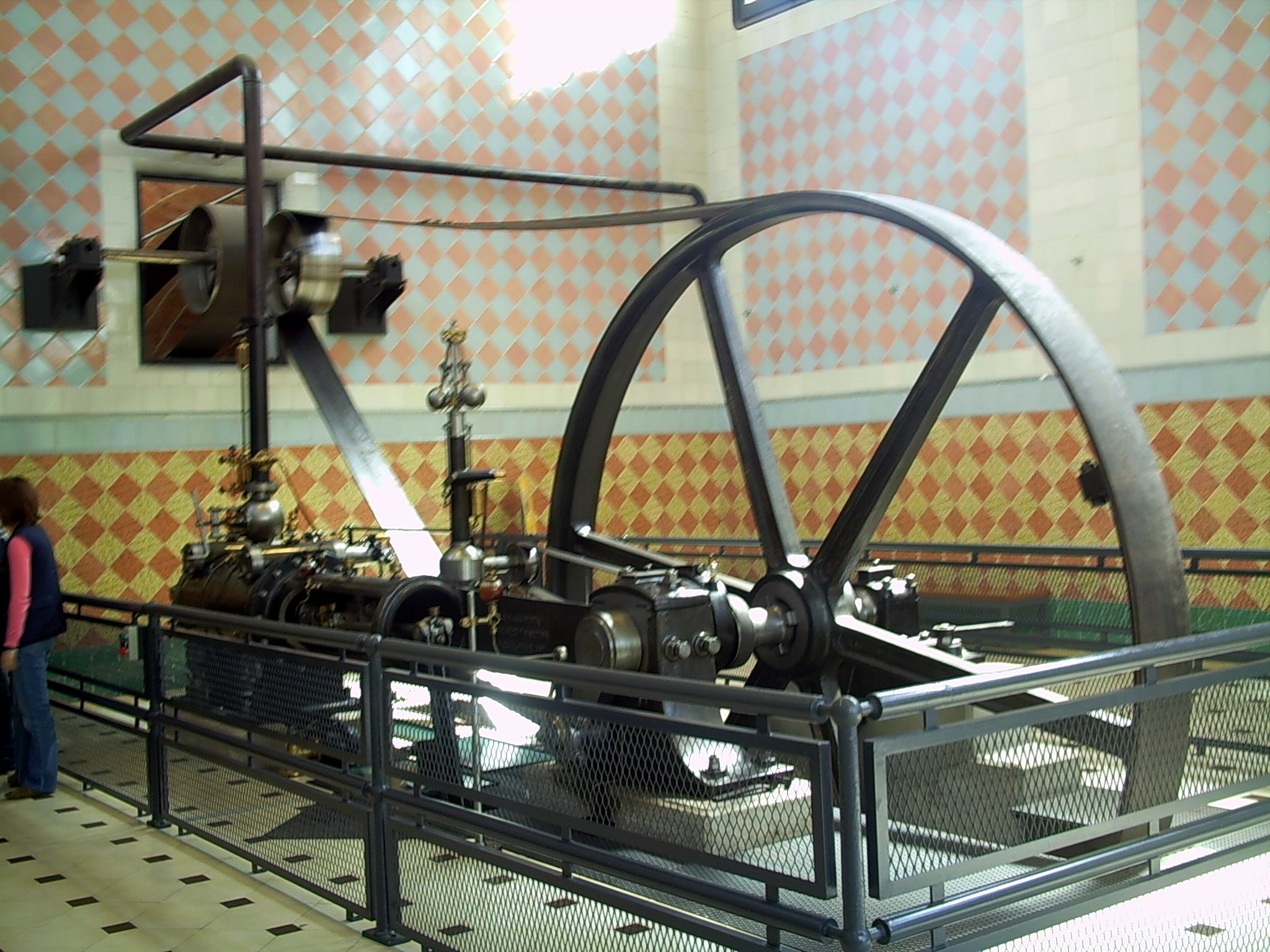 Horizontal steam engine, at the mNATECT, Terrassa, (Catalunya).